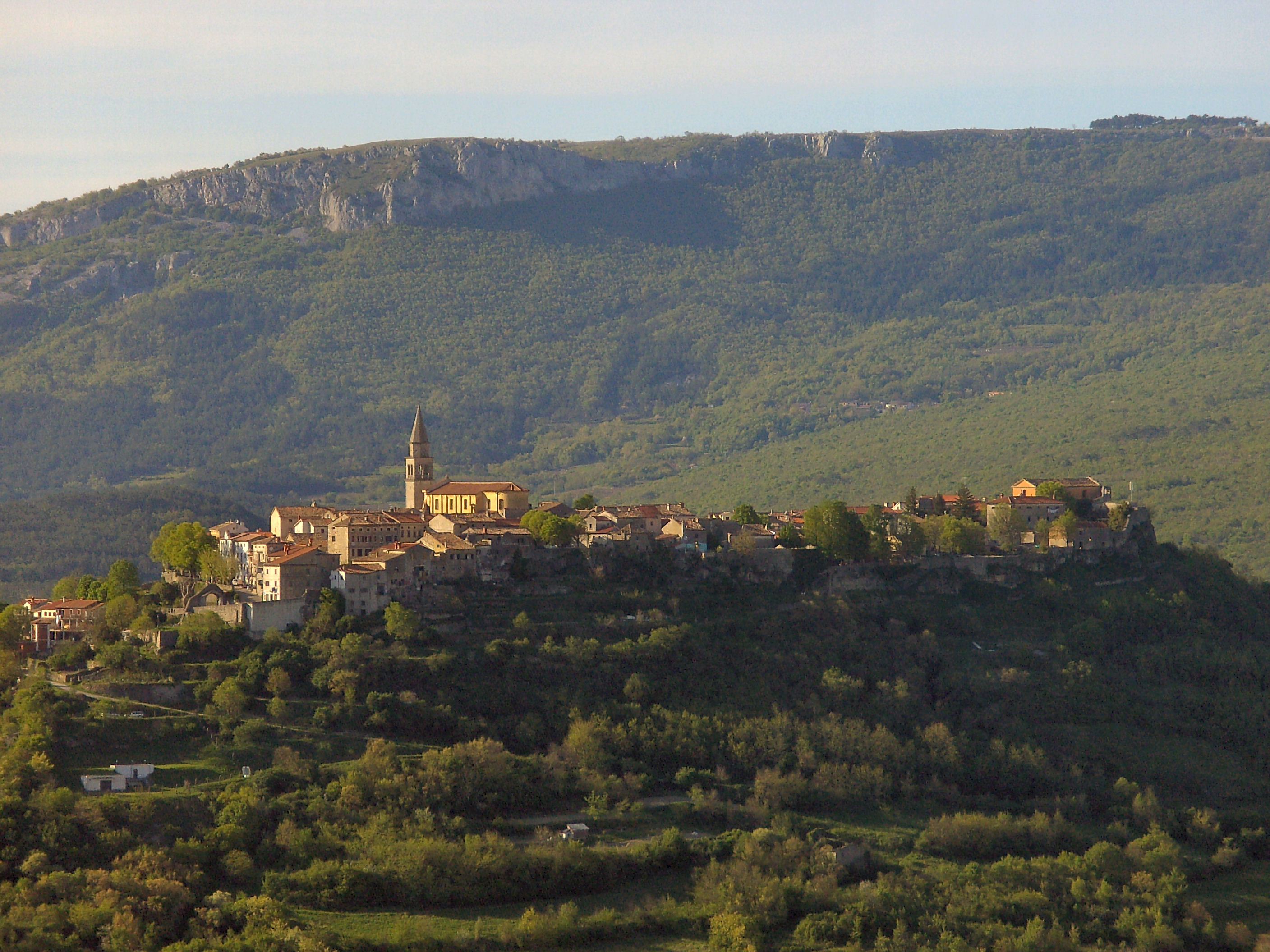 The old town of Buzet with the town gate on the left and its two churches (middle and right) as seen from the road to Kozari.